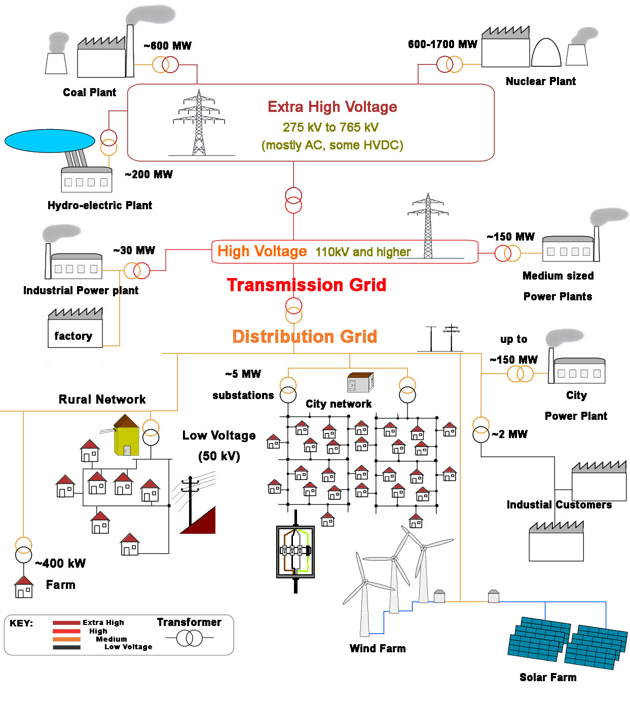 Schema of Electricity networks- Generation, Tranmission and Distribution